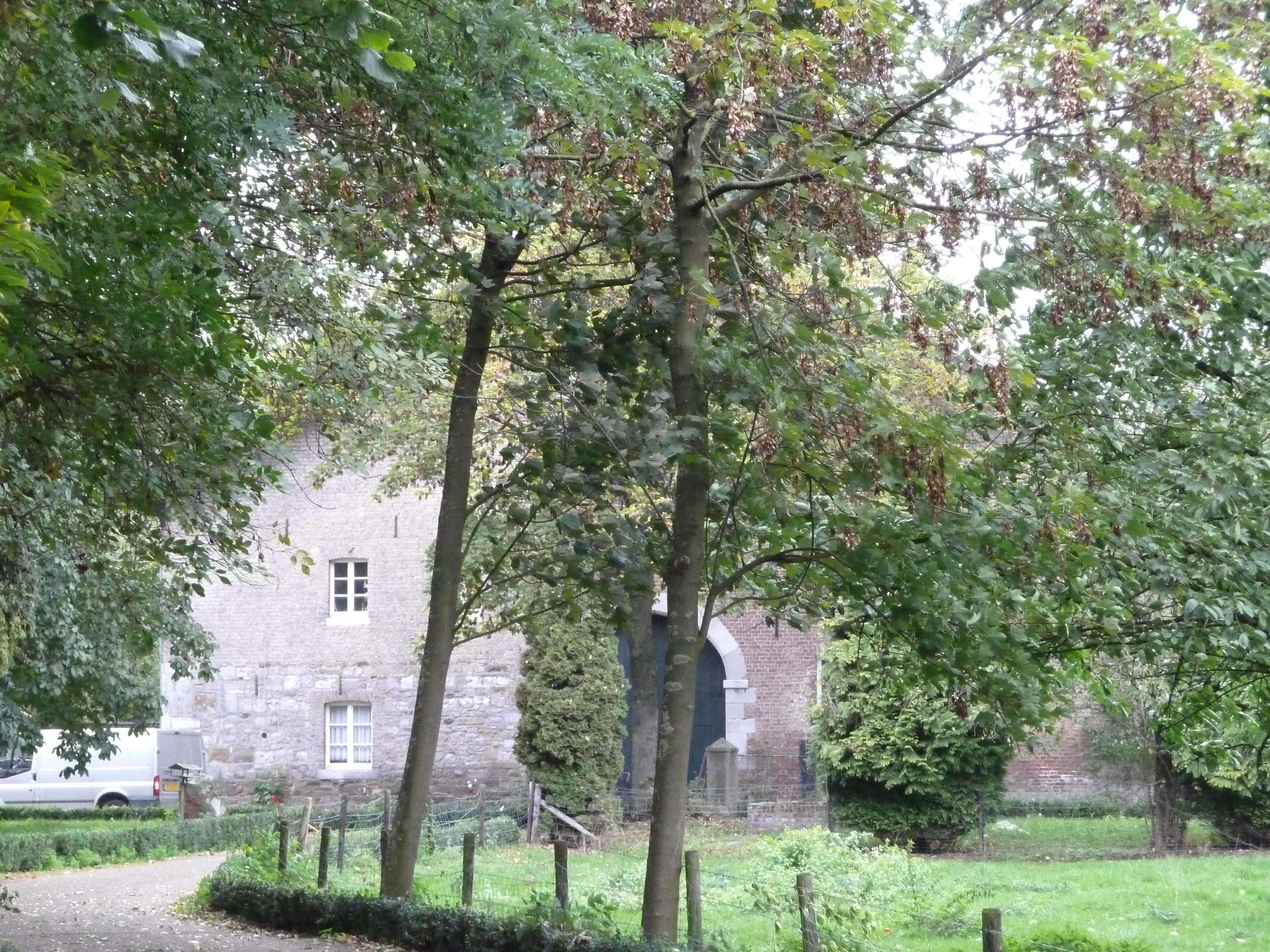 Kasteellaan 3, Oost-Maarland, Limburg, the Netherlands